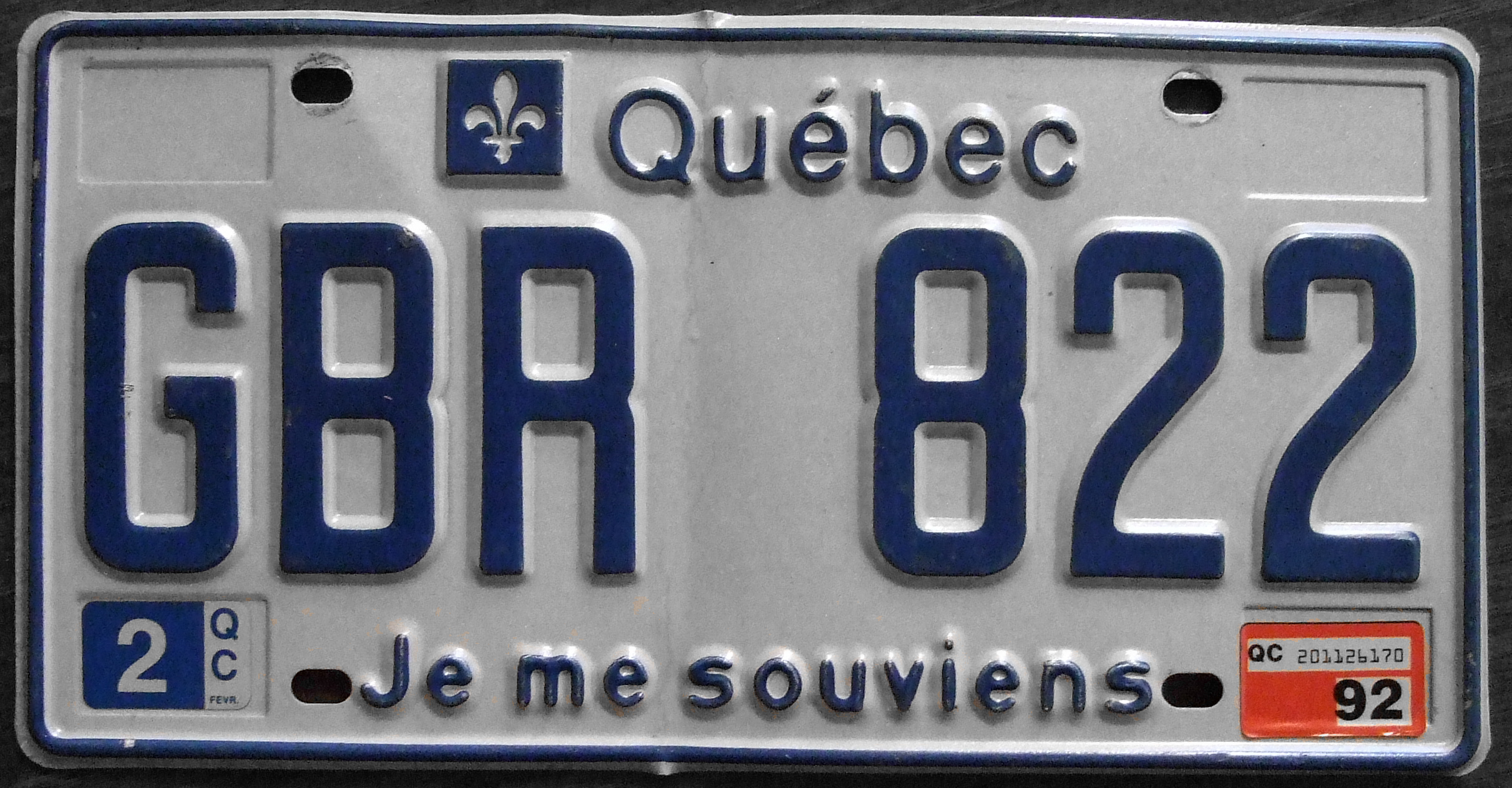 A picture of a 1992 Quebec license plate, with the motto at the bottom of the plate: “Je me souviens”.